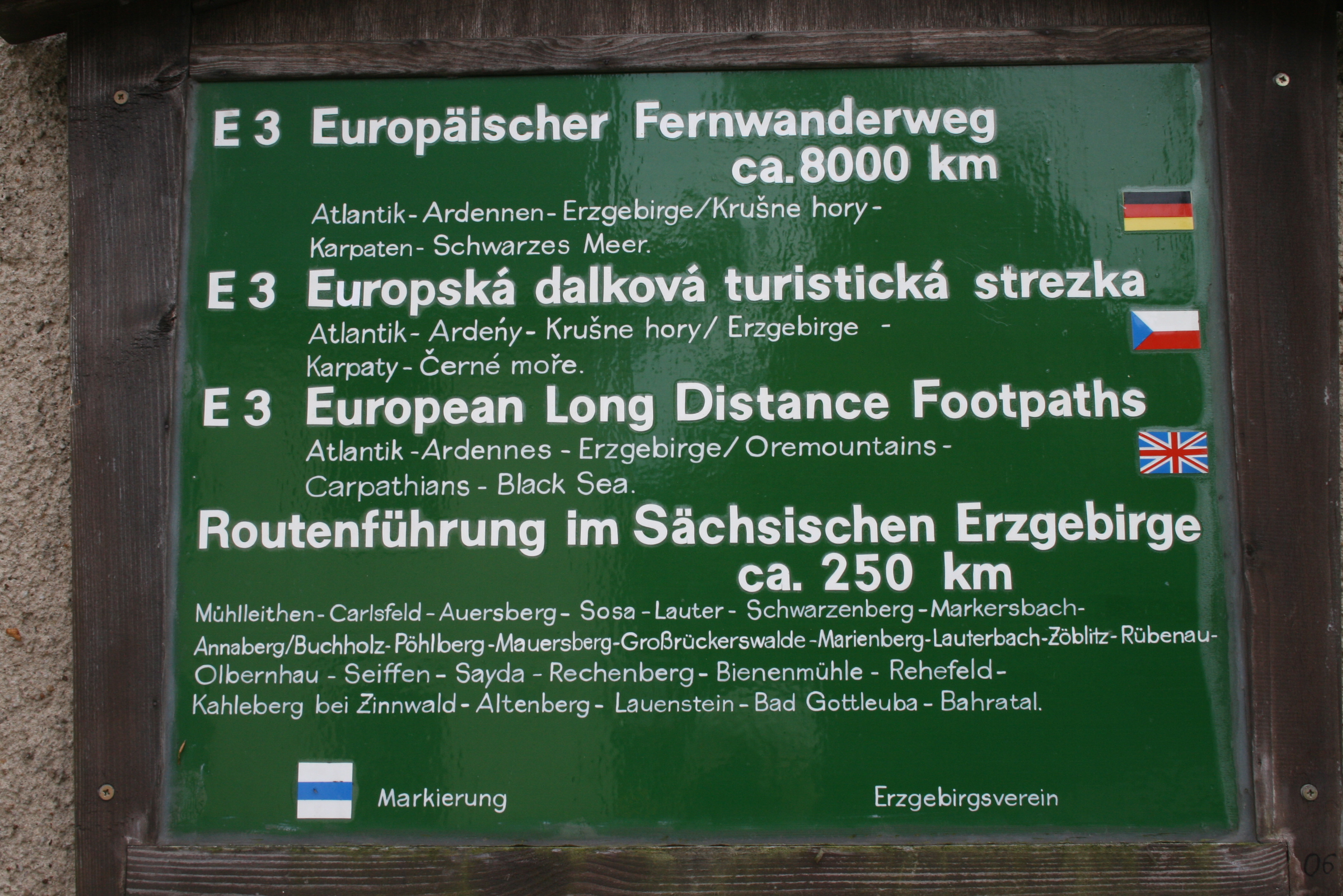 Footpath signs for the European long-distance path 3, situated at Jägerhaus (= hunter’s house) near Schwarzenberg/Ore Mountains/Saxonia/Germany with specifying the way across the saxonian Ore Mountains